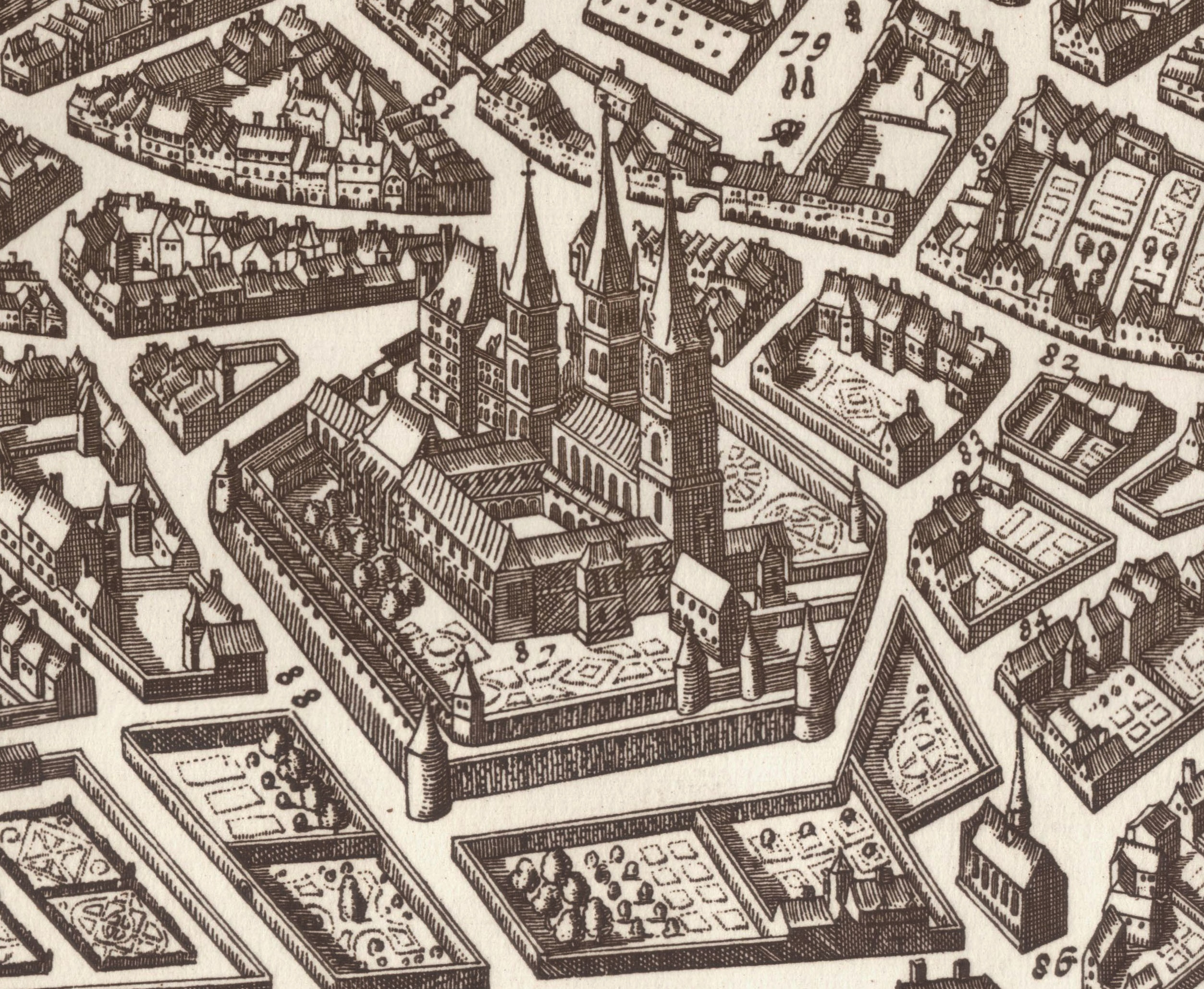 Abbaye de Saint-Germain-des-Prés in 1618.